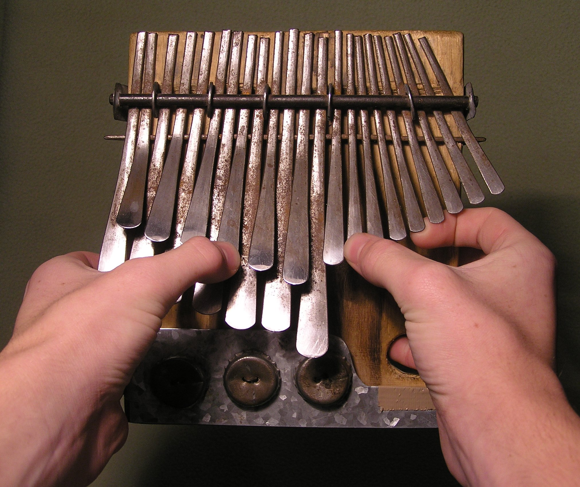 Image of how to hold an Mbira Dzavadzimu, taken with an Olympus C-770 digital camera- Cropped using the GIMP.